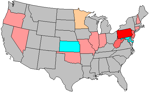 Summary of party change of U.S. house seats in the 1924 House election. Stripes indicate a tie between the gains of two or more parties. Legend: 6+ Democratic seat pickup 3-5 Democratic seat pickup 1-2 Democratic seat pickup 1-2 Republican seat pickup 3-5 Republican seat pickup 6+ Republican seat pickup 1-2 Progressive seat pickup 1-2 Farmer-Labor seat pickup 1-2 Socialist seat pickup Note: years ending in 2 may have inconsistent results due to redistricting.